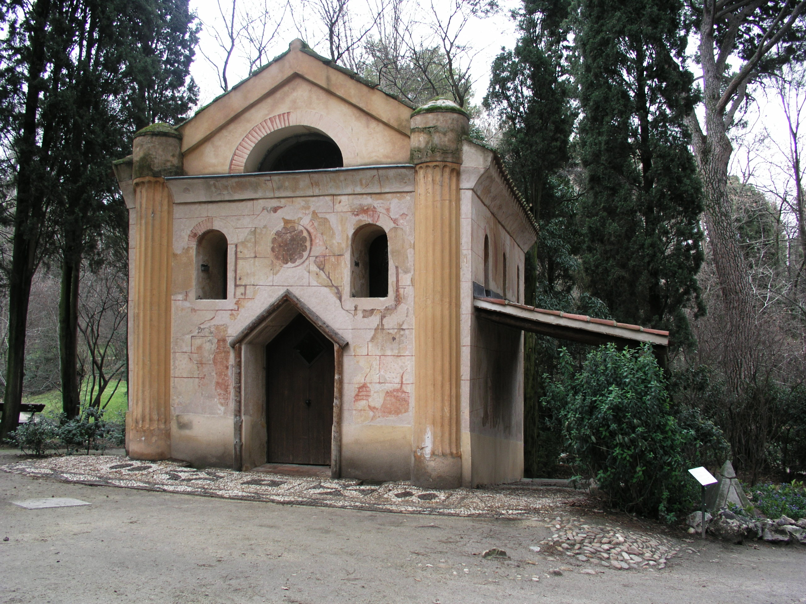 Jardín El Capricho, Madrid, Spain. Note that the damages on the wall are painted.